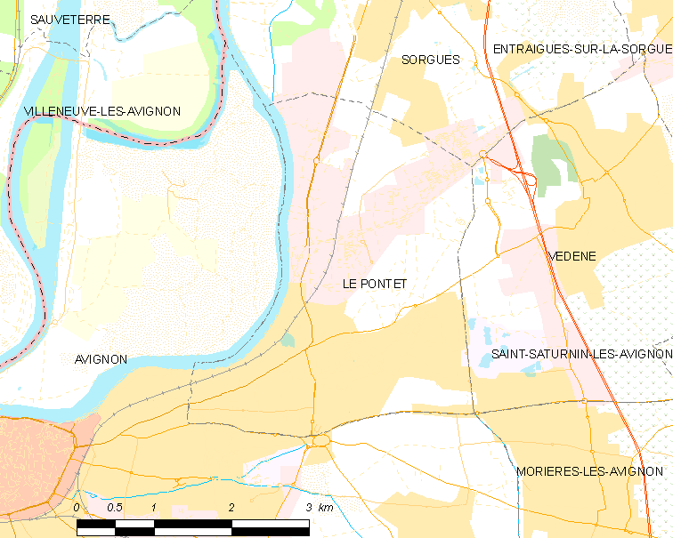 Map of French municipality Le Pontet